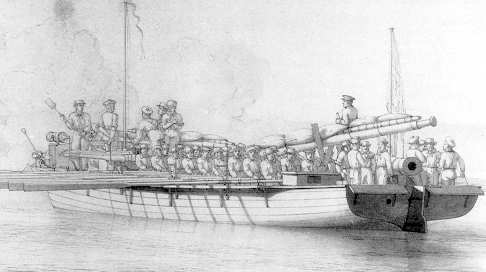 Danish shallop gunboat, from the so called "Gunboat War" 1807-1814. These vessels were built not only in Denmark, but also in Norway and Sweden - in fact, the designer was the swedish Chapman.